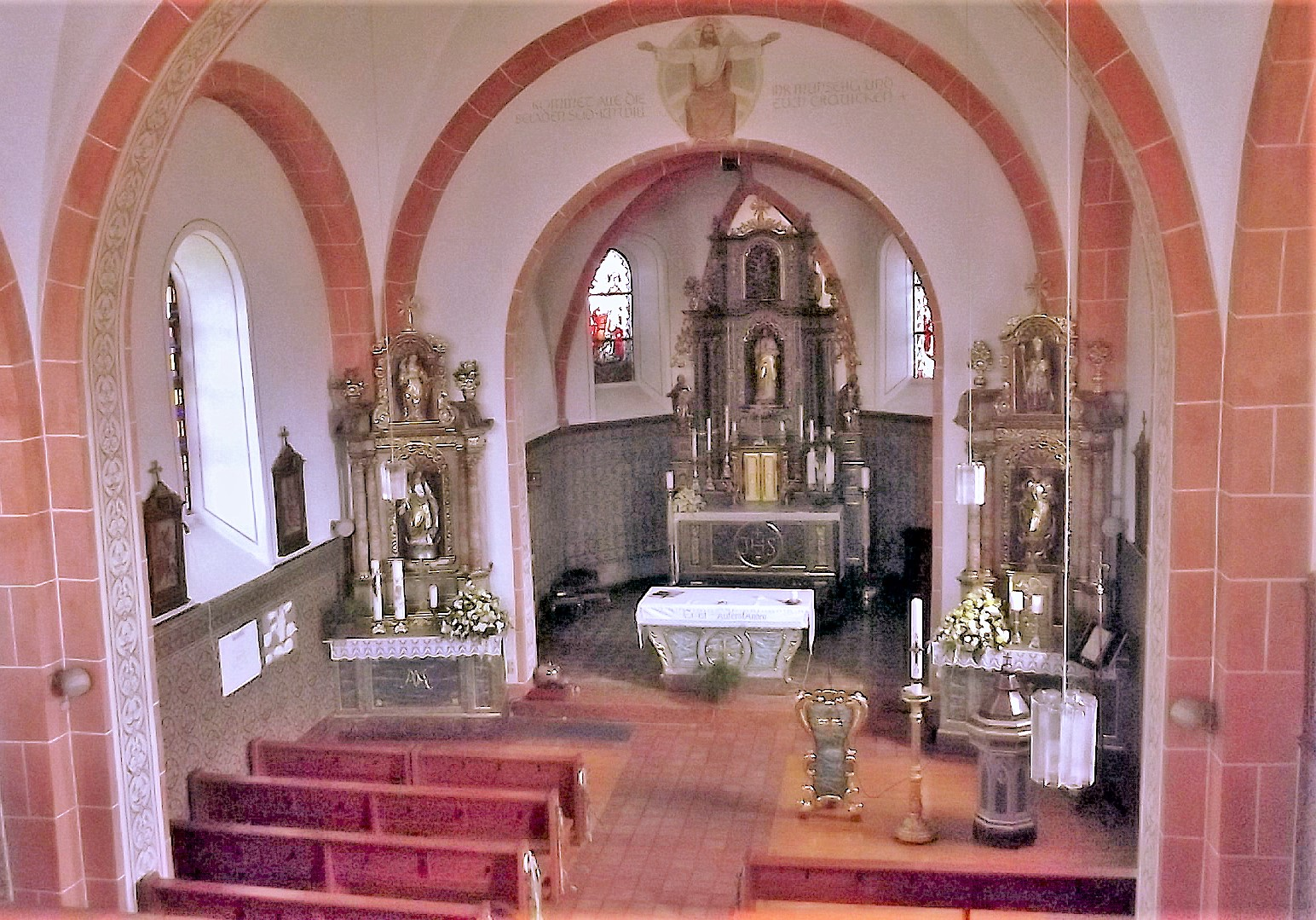 Interior of the roman catholic church in Eft-Hellendorf, Saarland, Germany